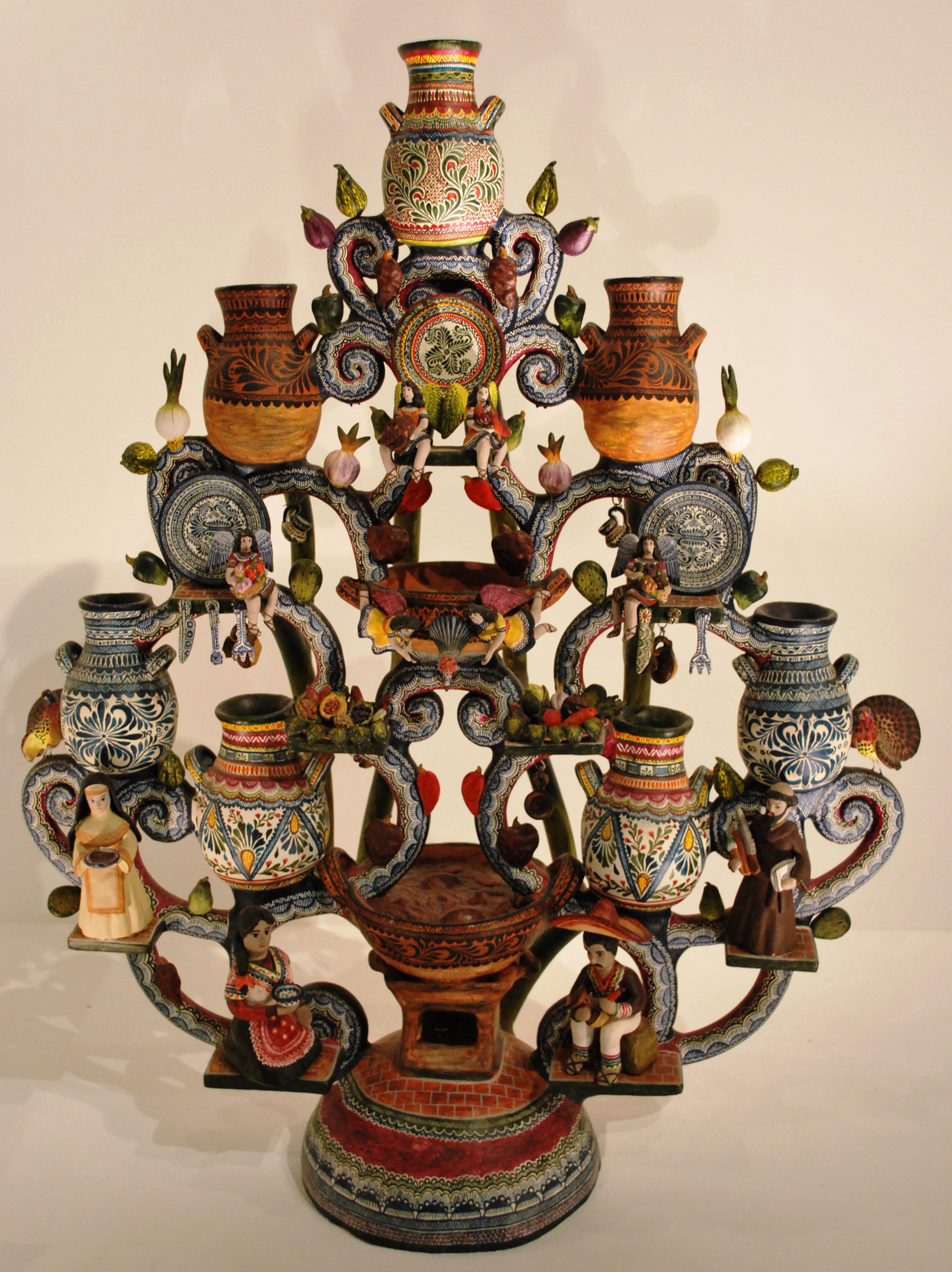 Tree of Life sculpture by Alfonso Castillo depicting the history of mole and Talavera pottery of Puebla. On display at the Museum of Artes Populares in Mexico City